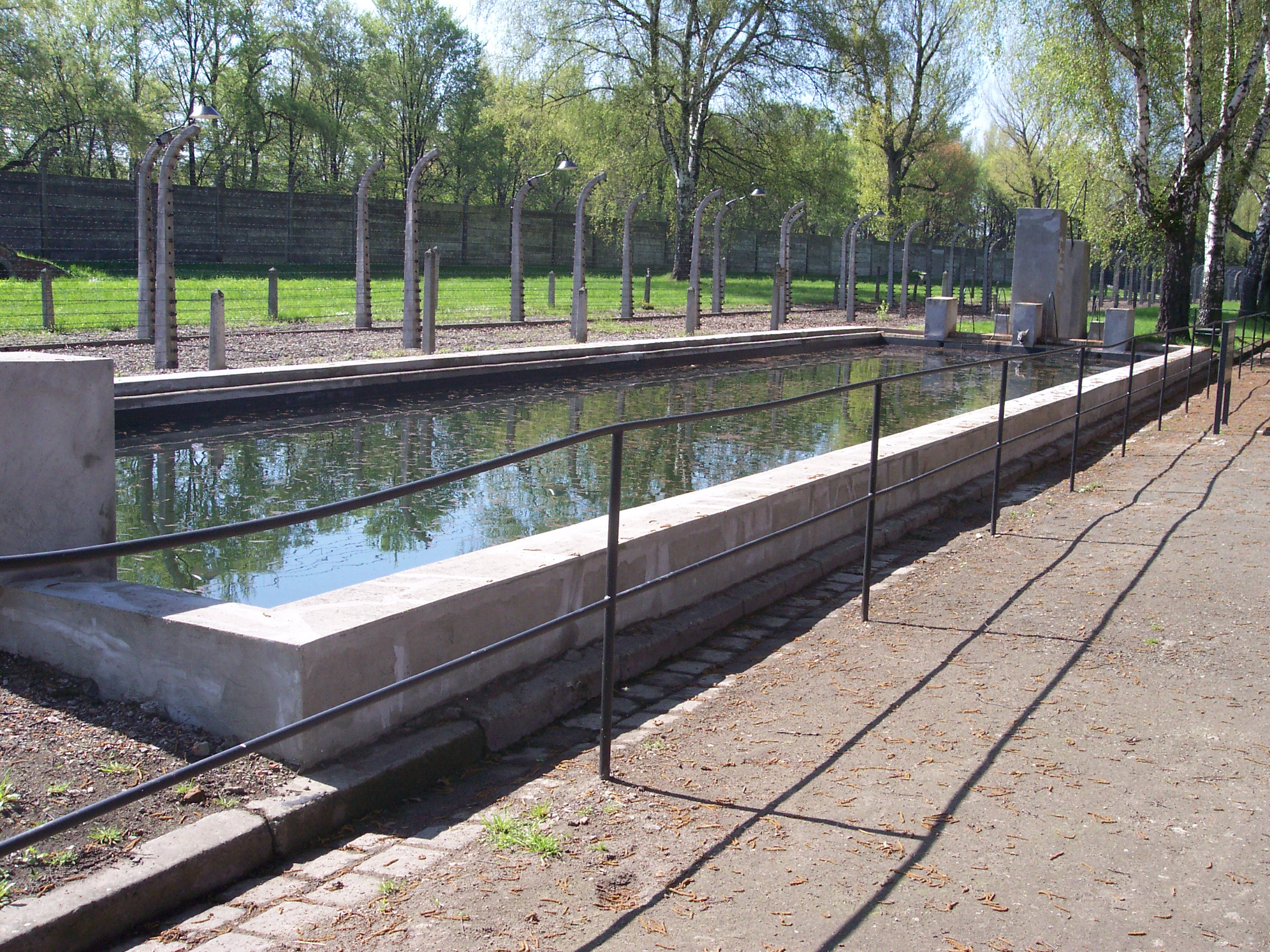 Concentration camp Auschwitz I, swimming pool south-east of Block 6